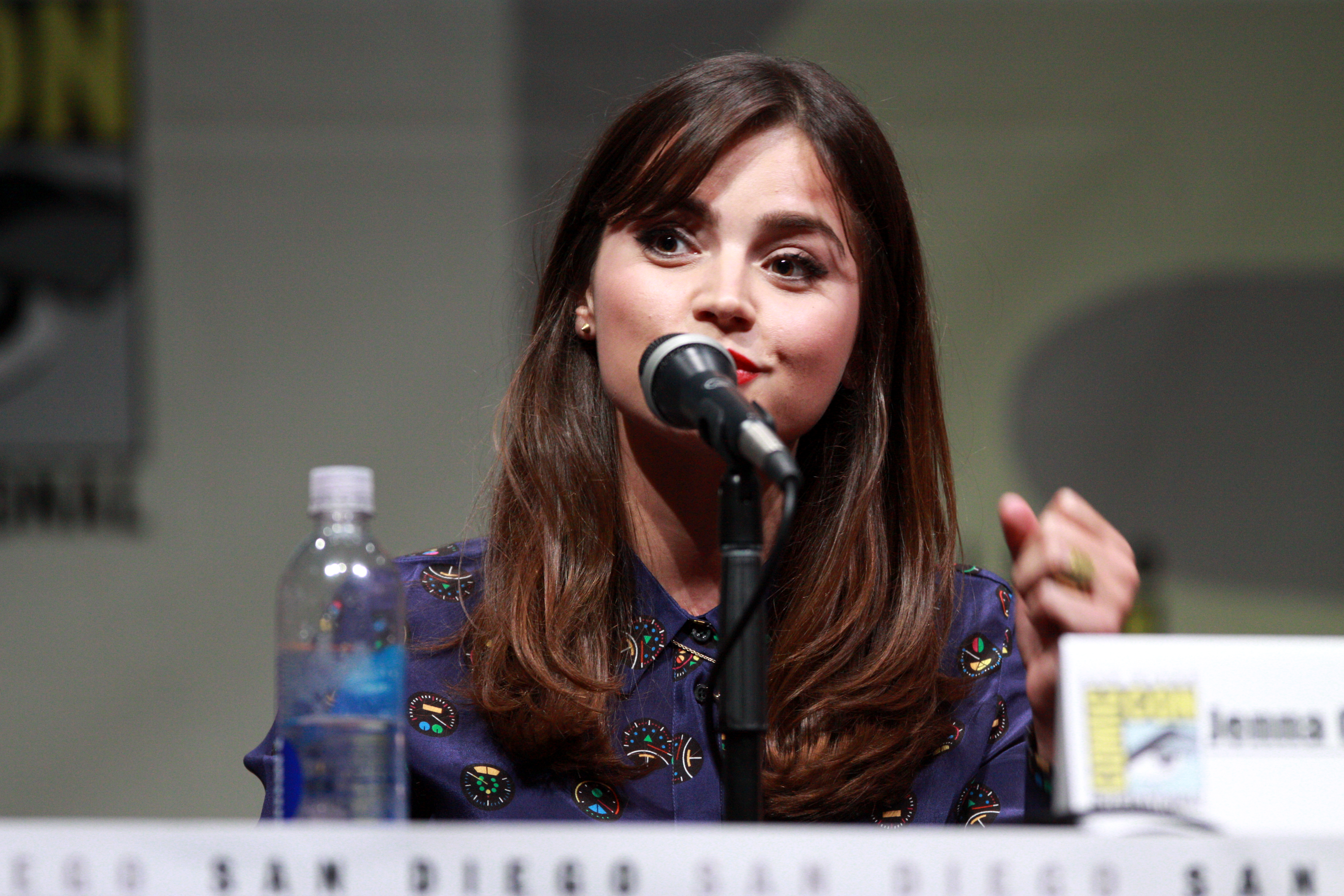 Jenna Coleman speaking at the 2013 San Diego Comic Con International, for "Doctor Who", at the San Diego Convention Center in San Diego, California.